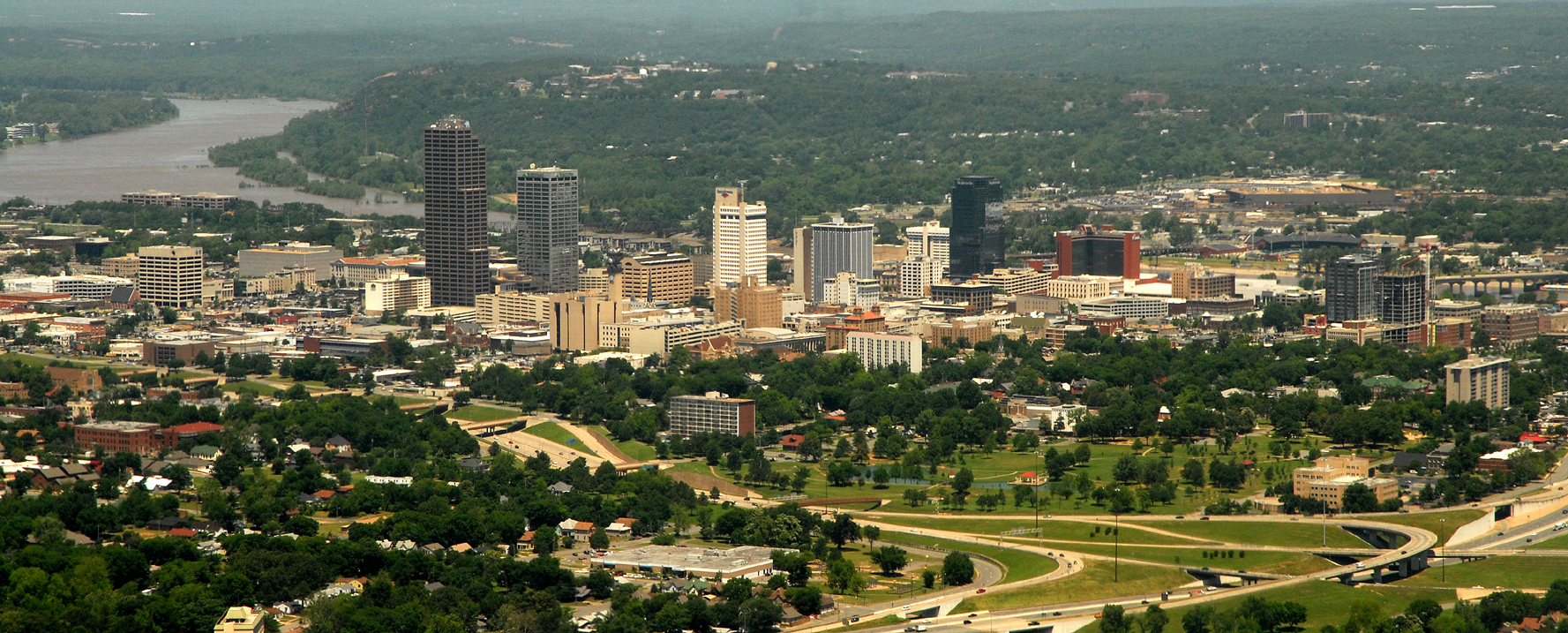 A view of Little Rock, summer 2008.